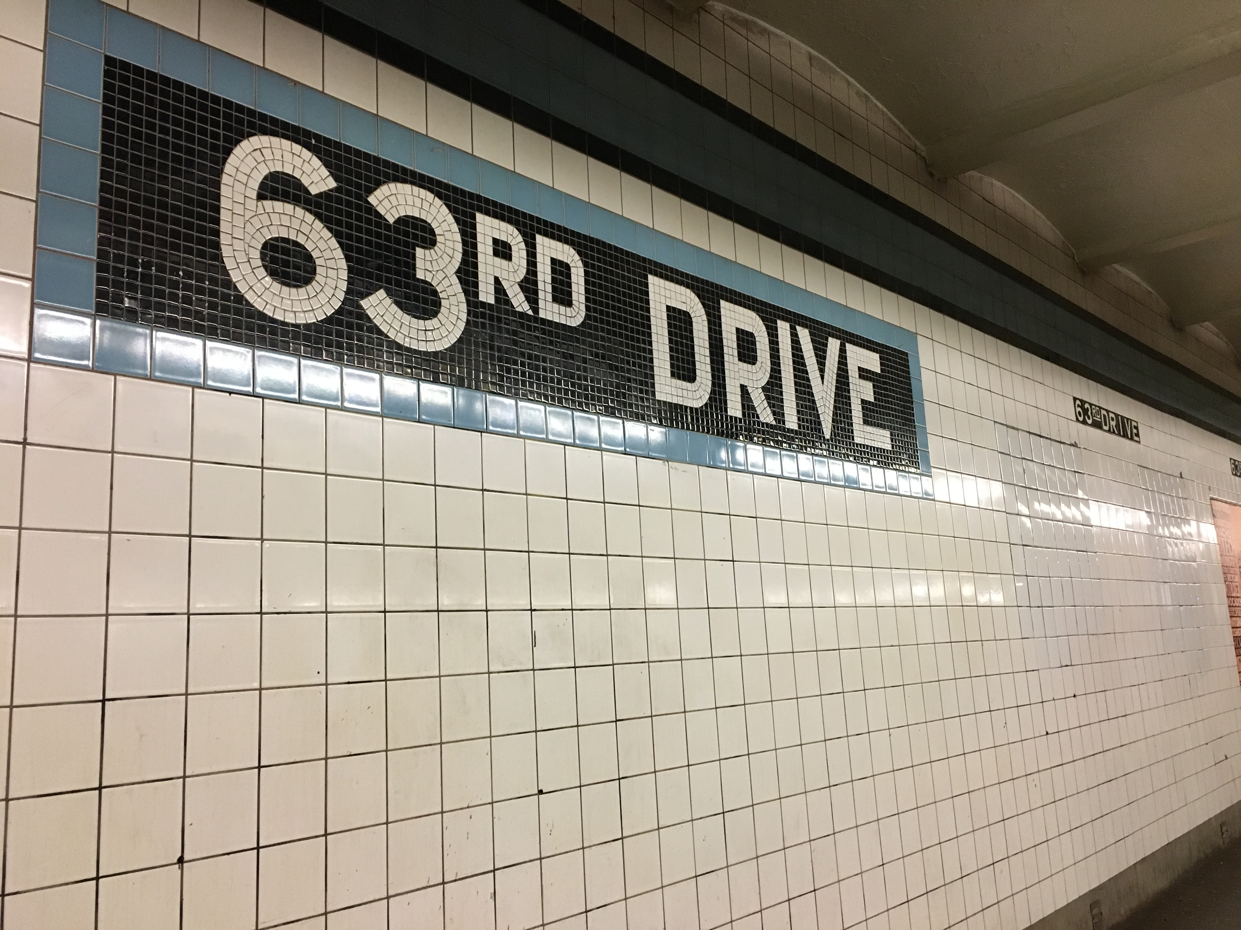 The station name mosaic at 63rd Drive-Rego Park